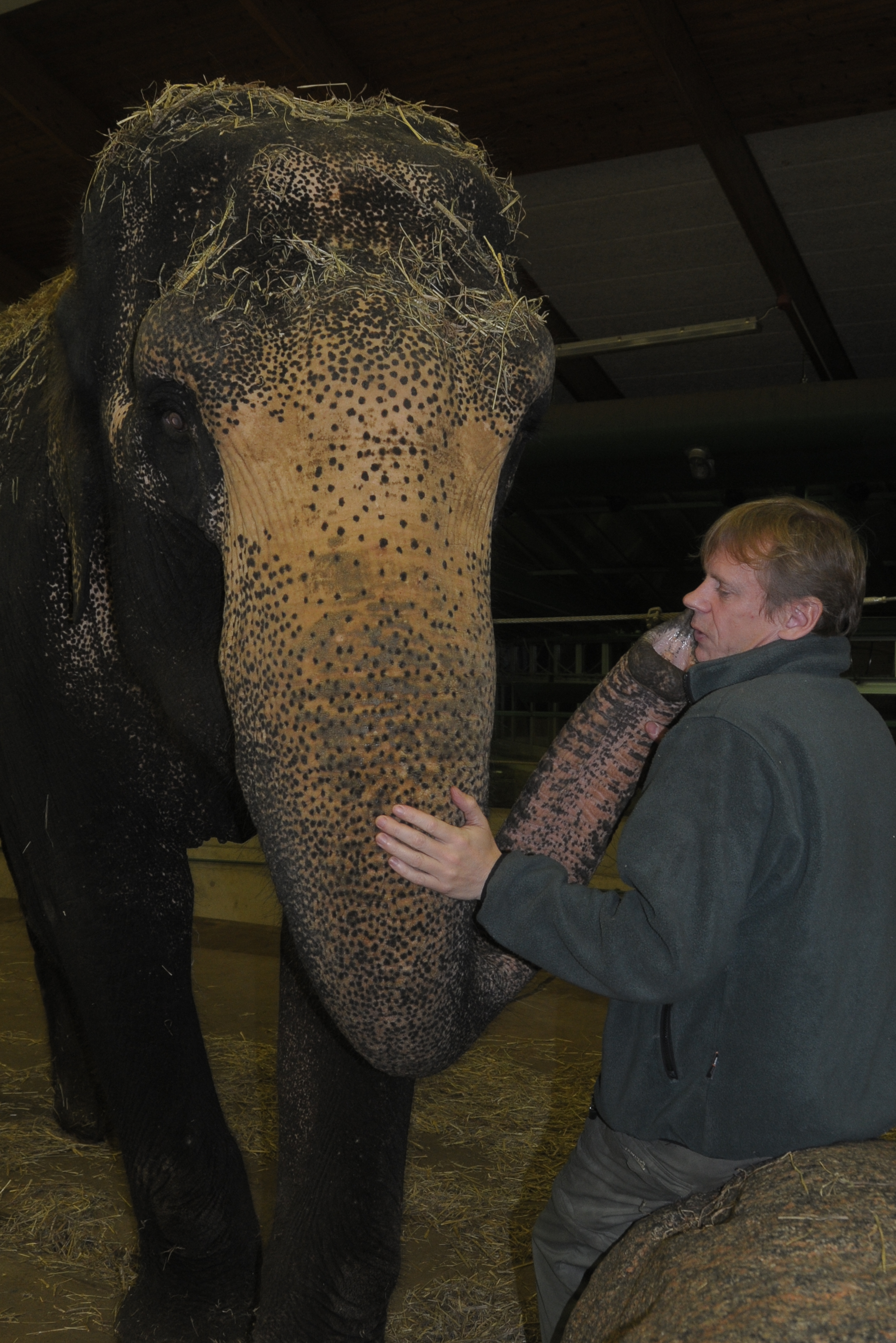 Asian elephant Saba with elephant trainer Dan Koehl, Kolmarden Zoo, 2008